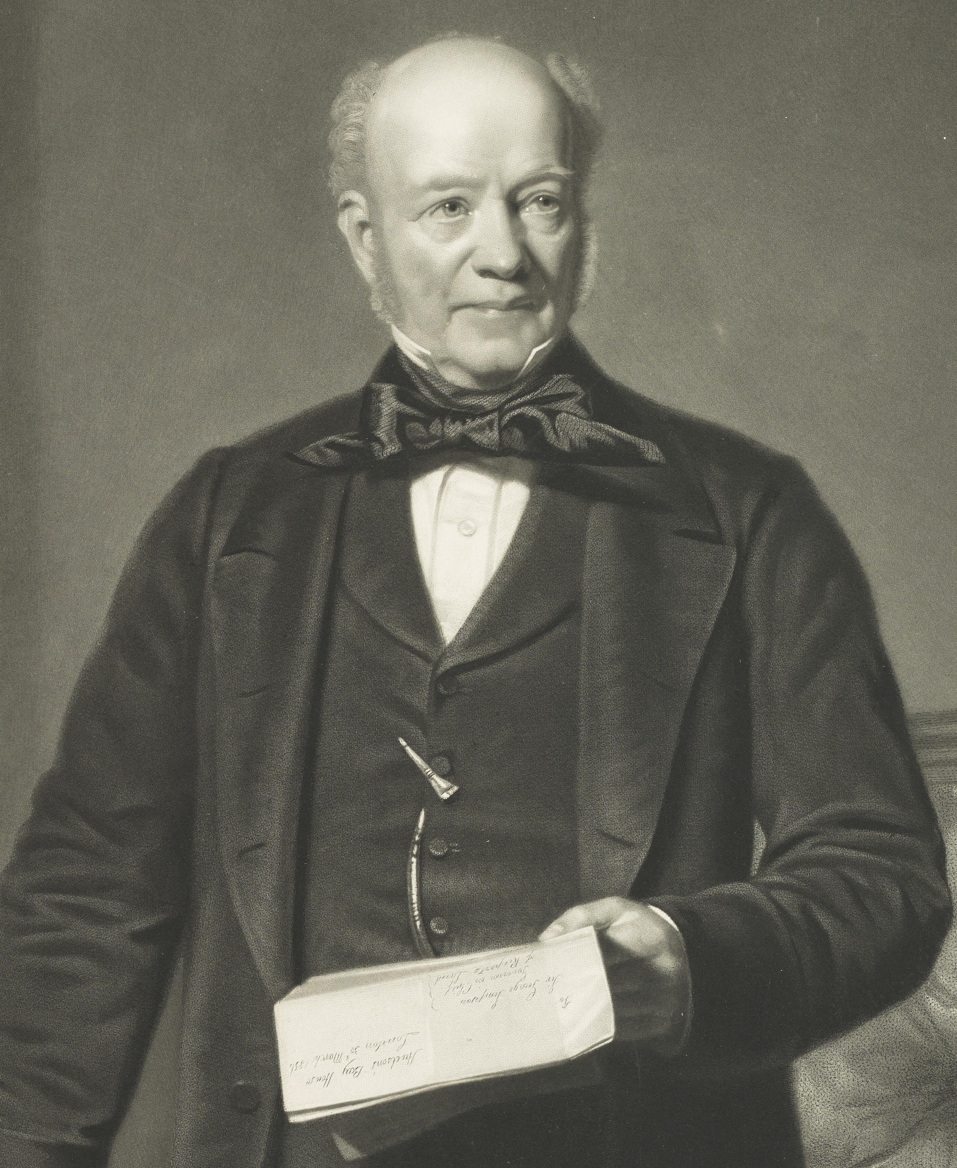 Sir George Simpson, 1792–1860. Governor of the Hudson's Bay Territories